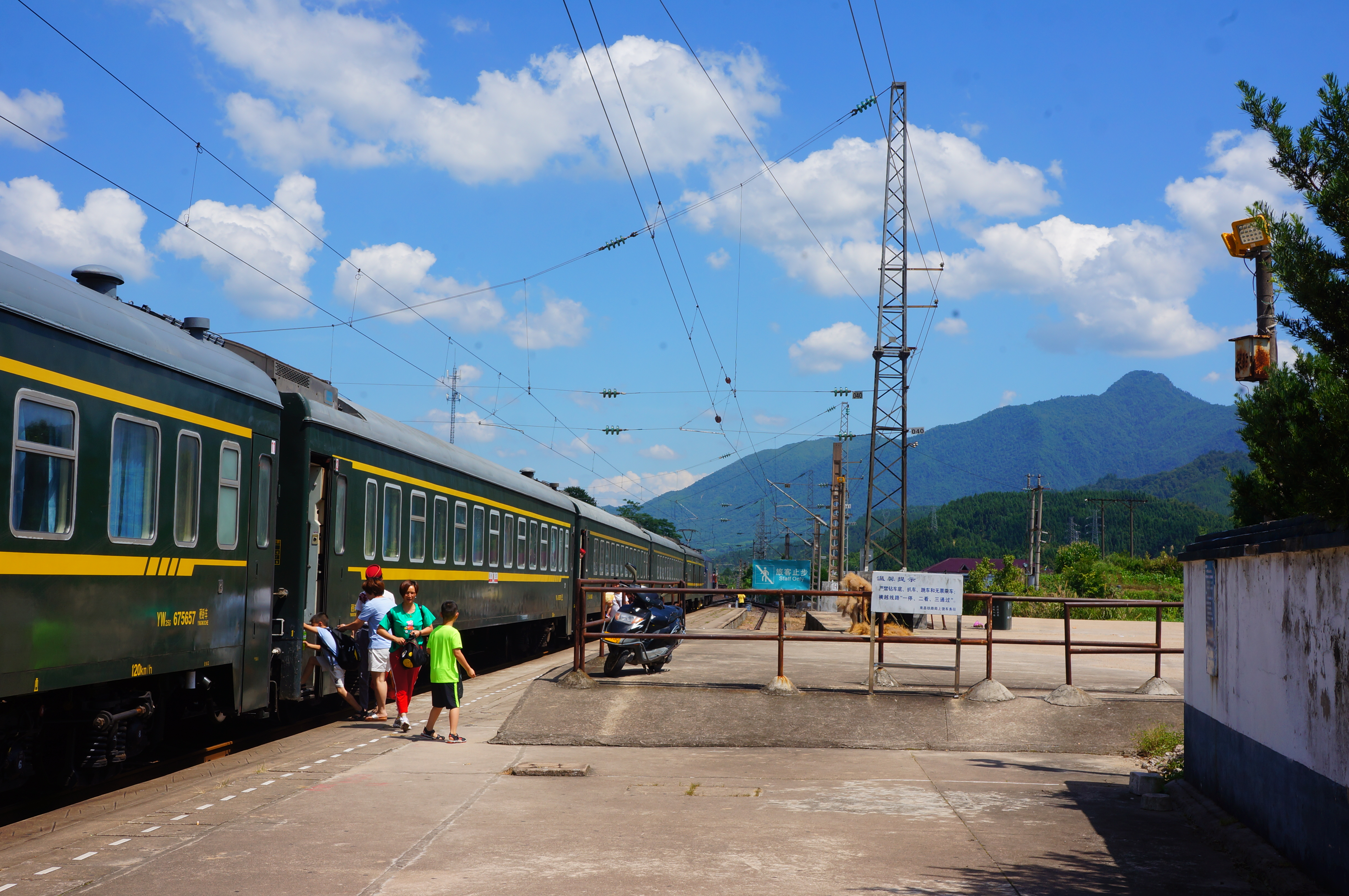 201806 Southern End of Zixi Station Platform